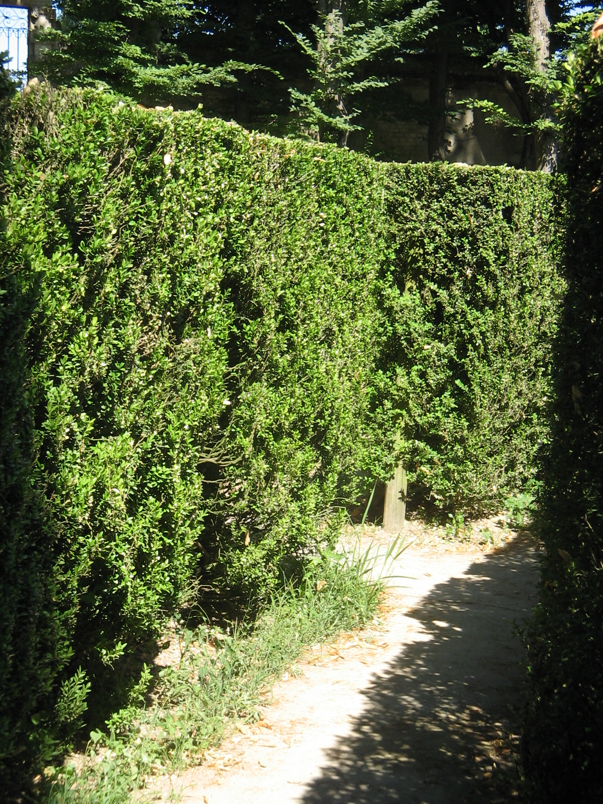 The labyrinth of villa Pisani, Stra (Venice, Italy)